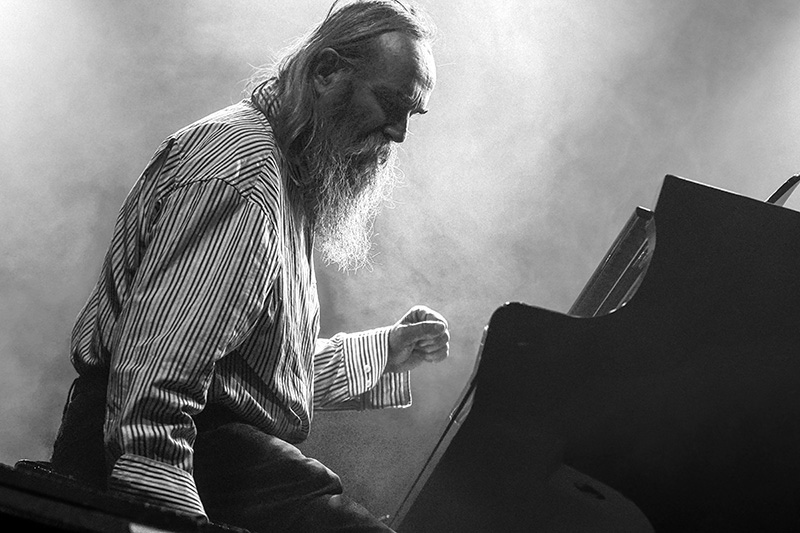 Lubomyr Melnyk at Aarhus Festival, Denmark 2018